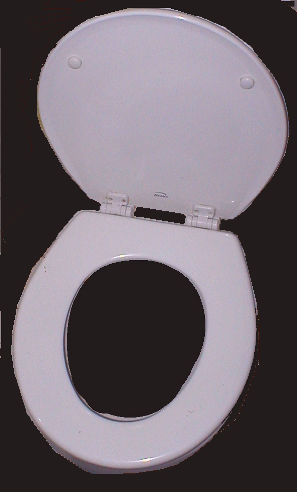 Large image of toilet seat